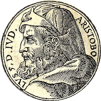 Judah Aristobulus I from Guillaume Rouillé's Promptuarium Iconum Insigniorum